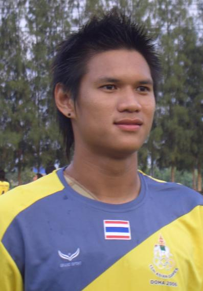 Naris Thaweekul, Thai footballer playing in the national team